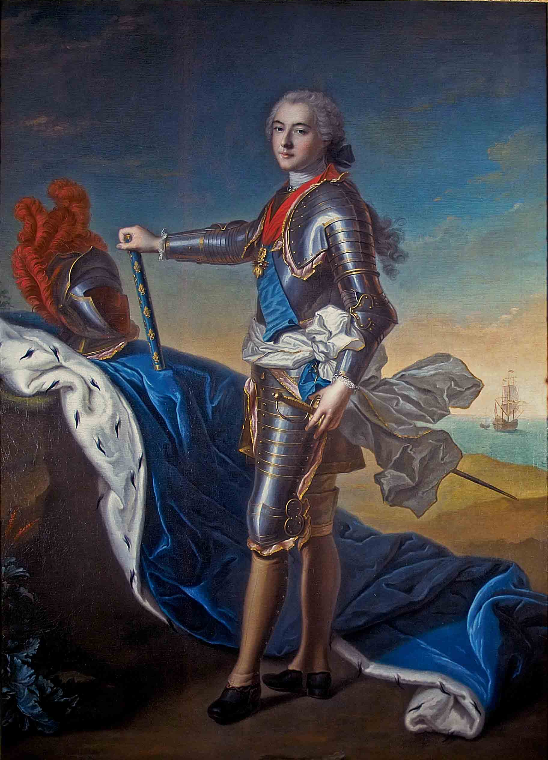 Louis Jean Marie de Bourbon, Duke of Penthièvre (1725-1793) as Admiral of France